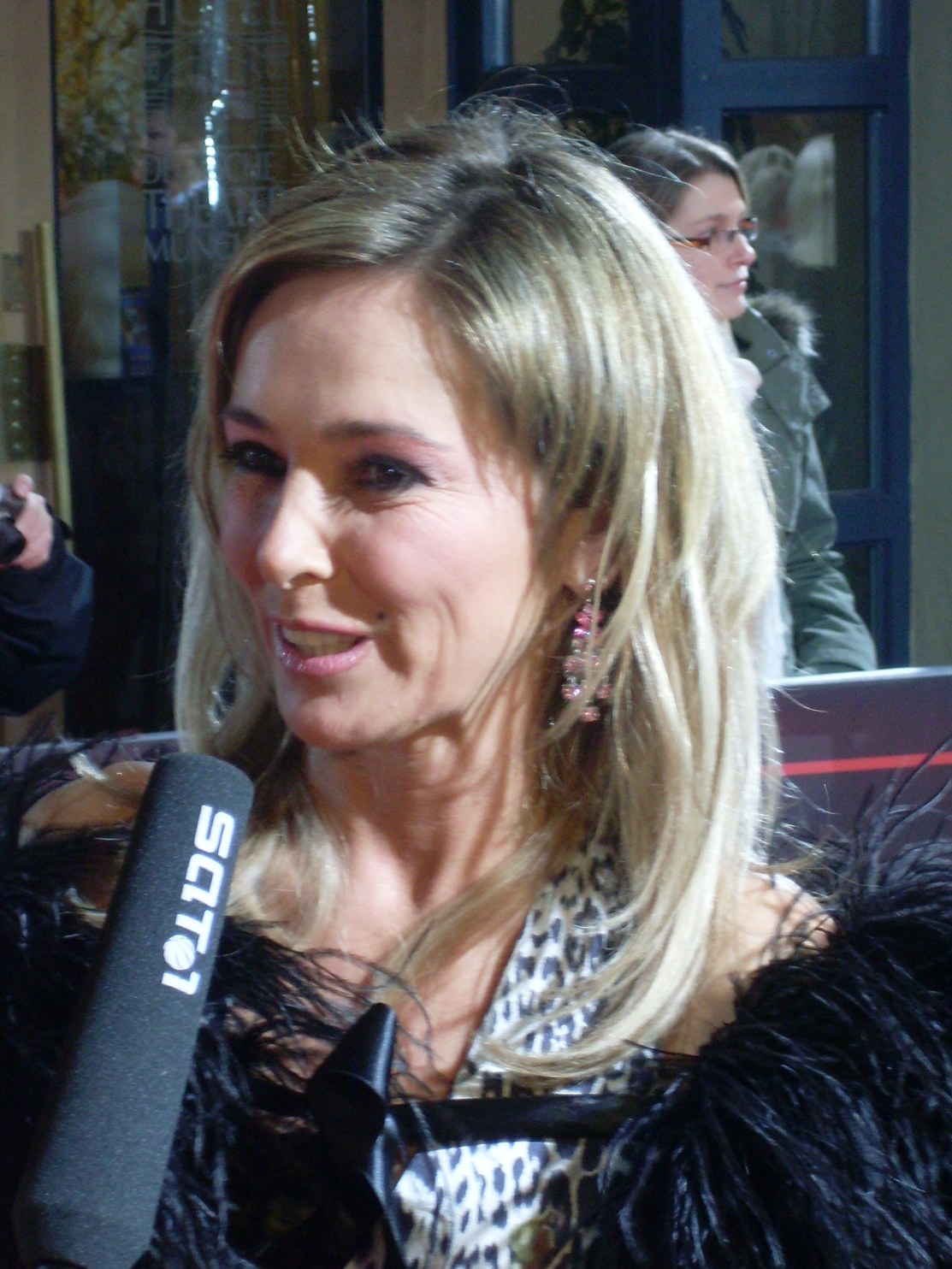 Gundis Zámbó at Diva 2008